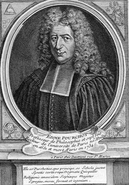 Portrait of Edmond Pourchot (1651-1734)